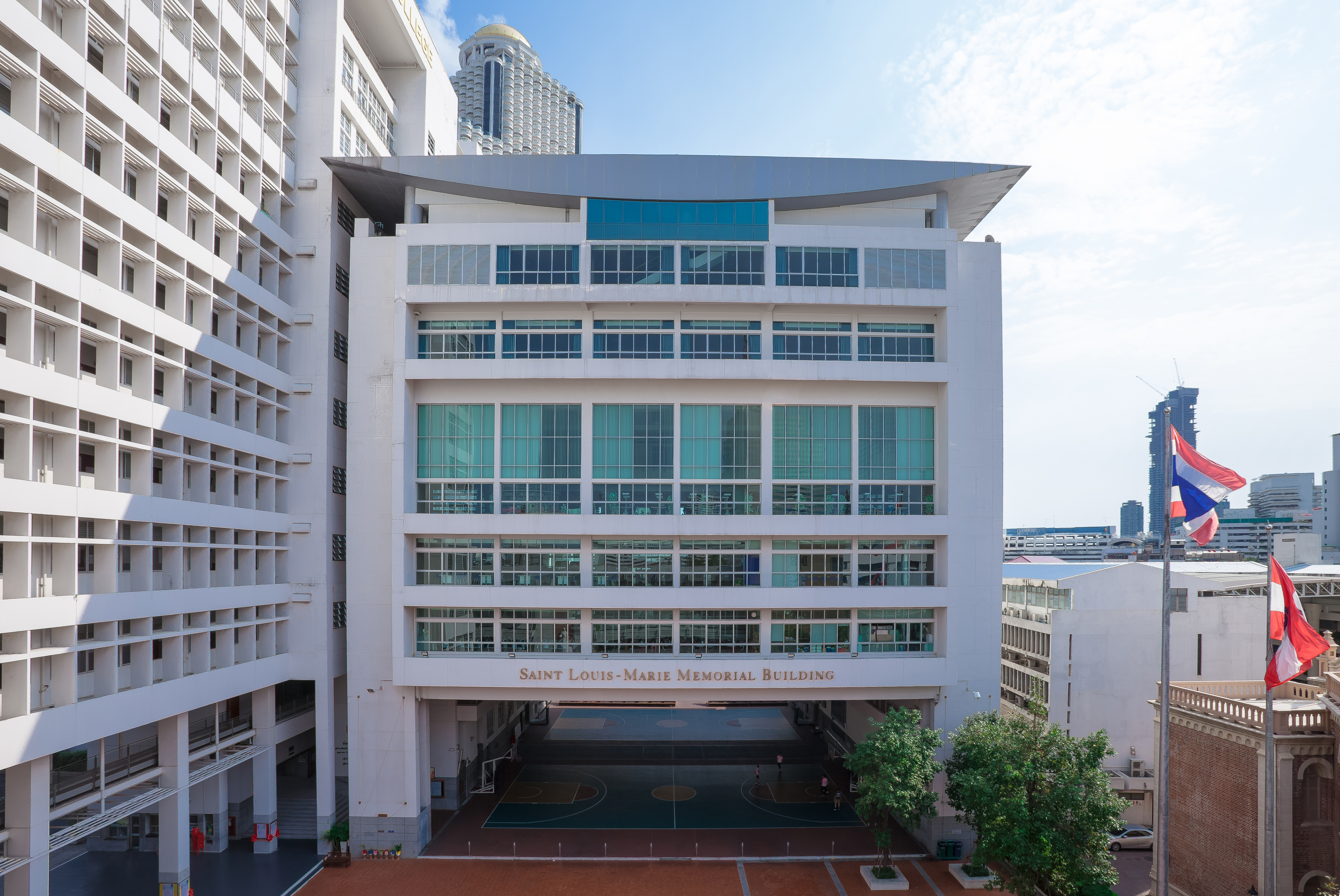 Louis Marie Building at Assumption College, Bang Rak, Bagkok.